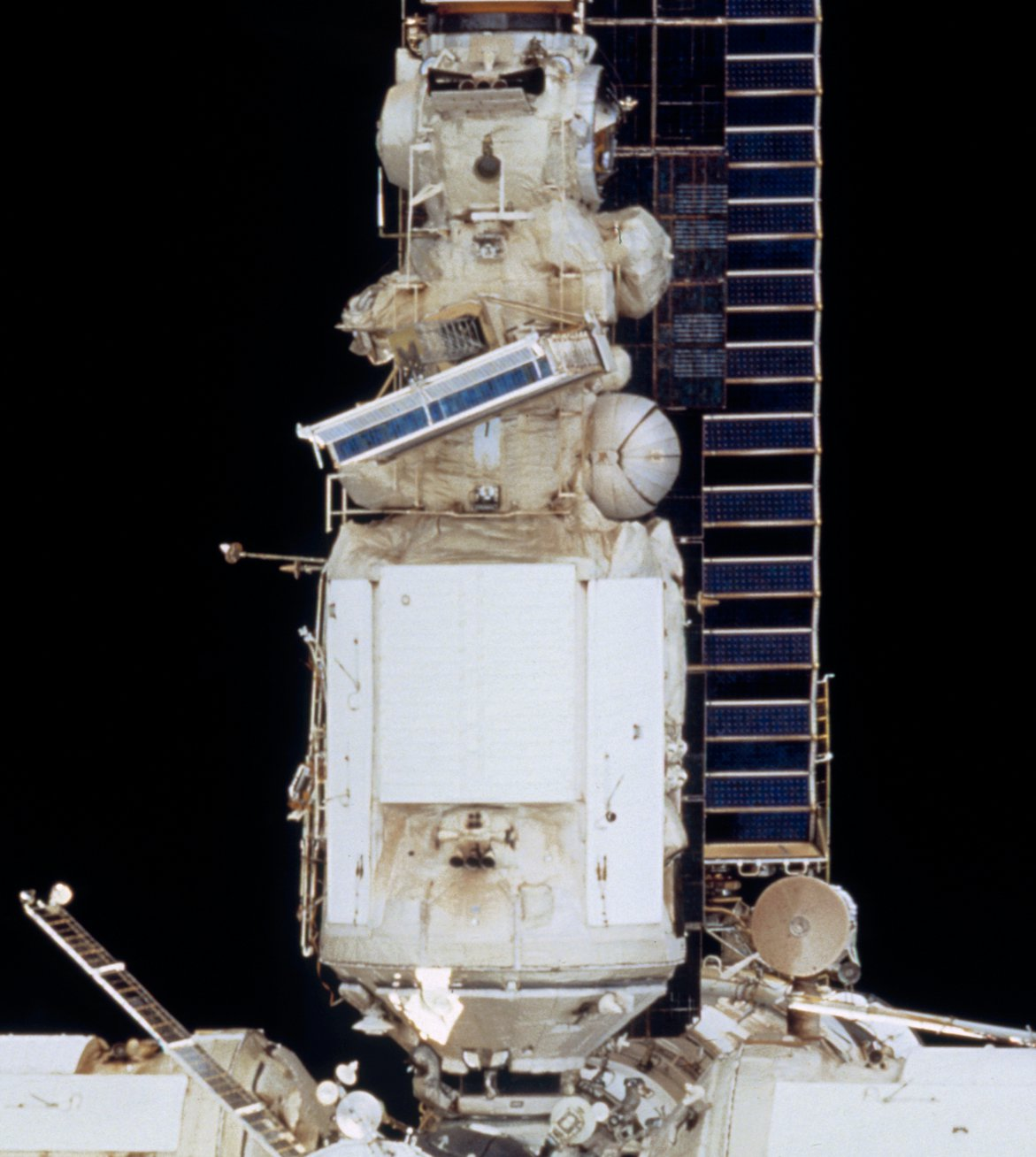 Survey view of the Mir space station taken by the STS-81 crew after undocking from the station. View of the whole station against the darkness of space.